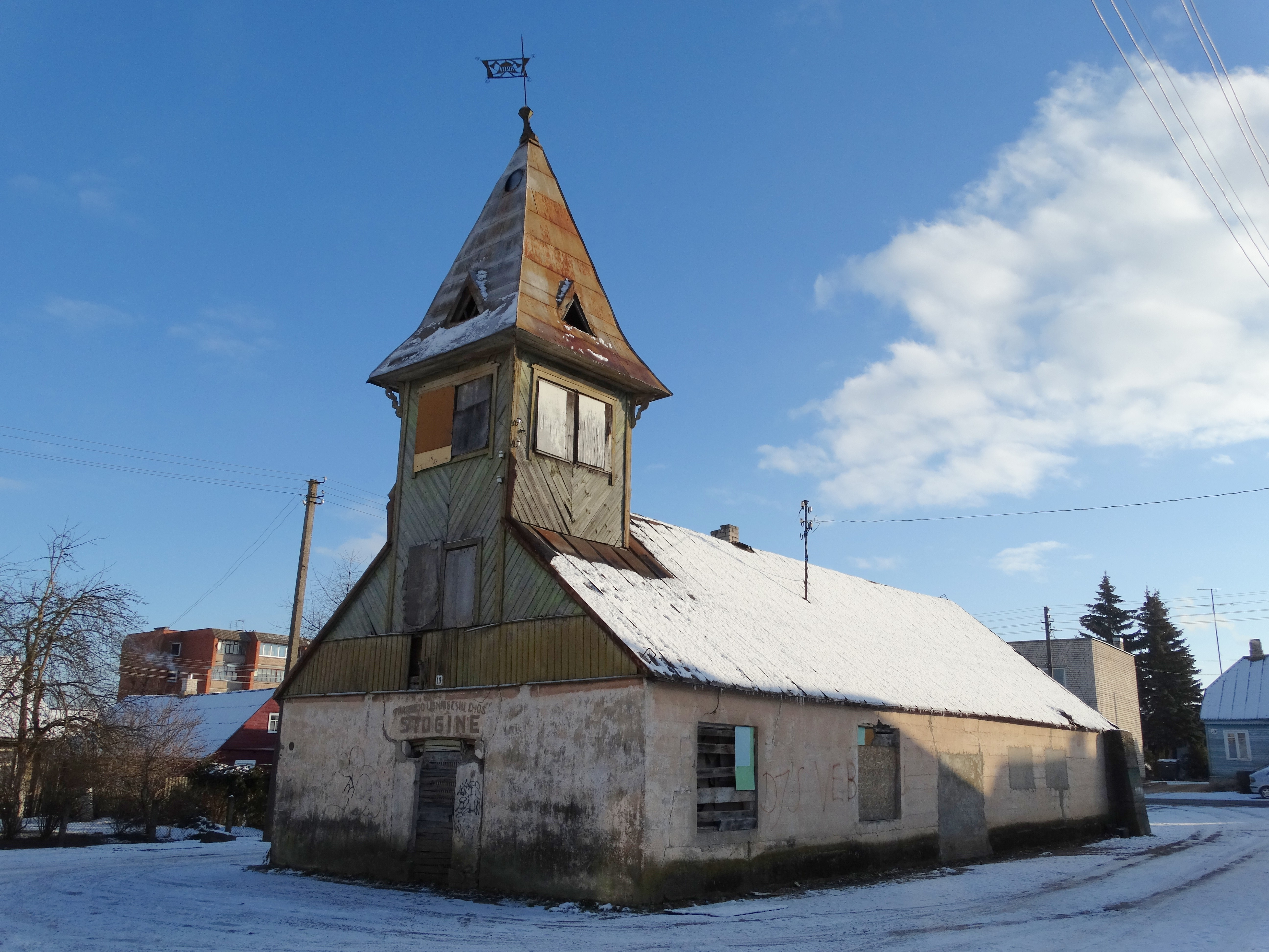 Old fire station, Pakruojis, Lithuania